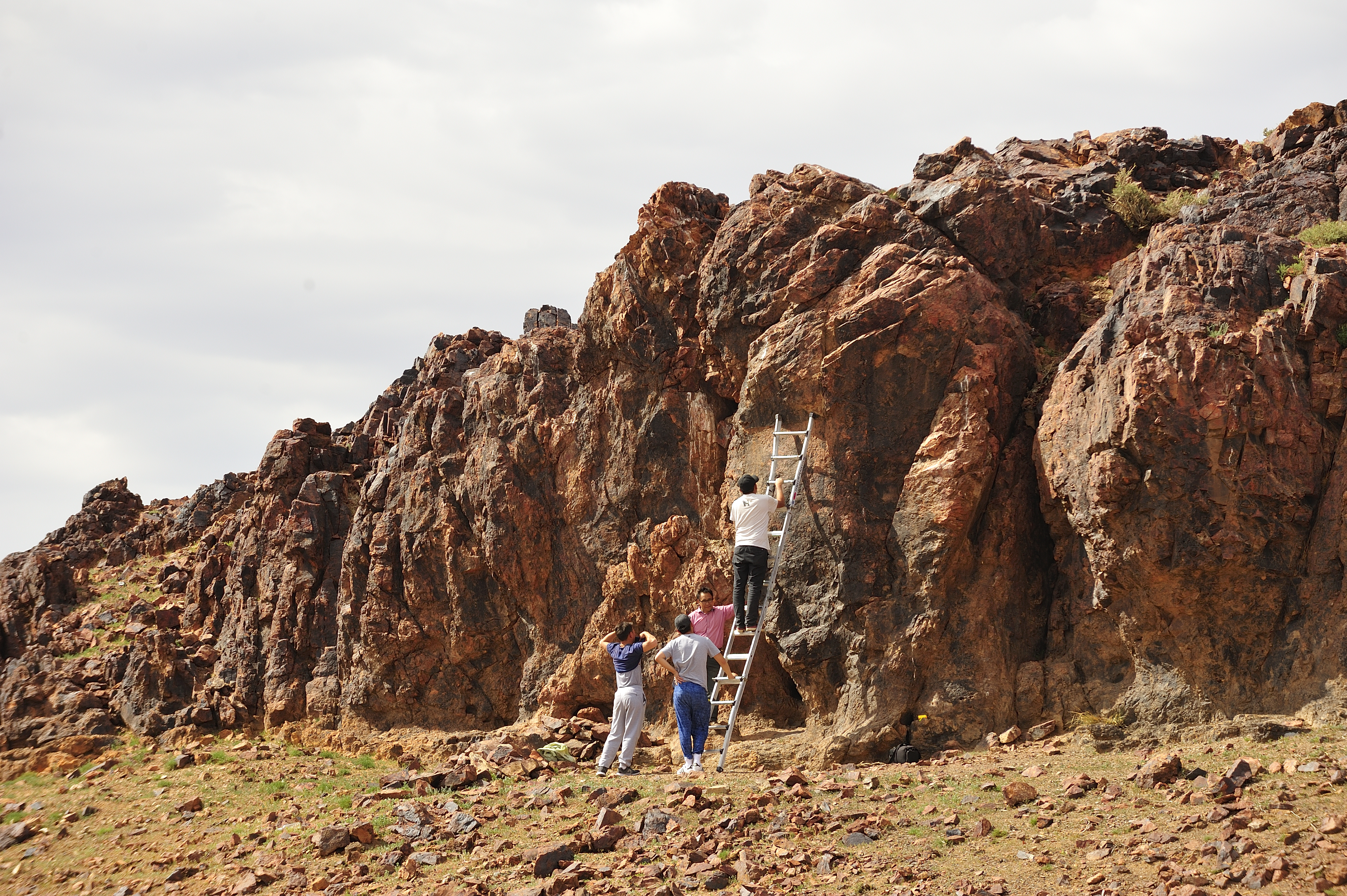 This ancient inscription carved in 90's AD and the earliest inscription in Mongolia